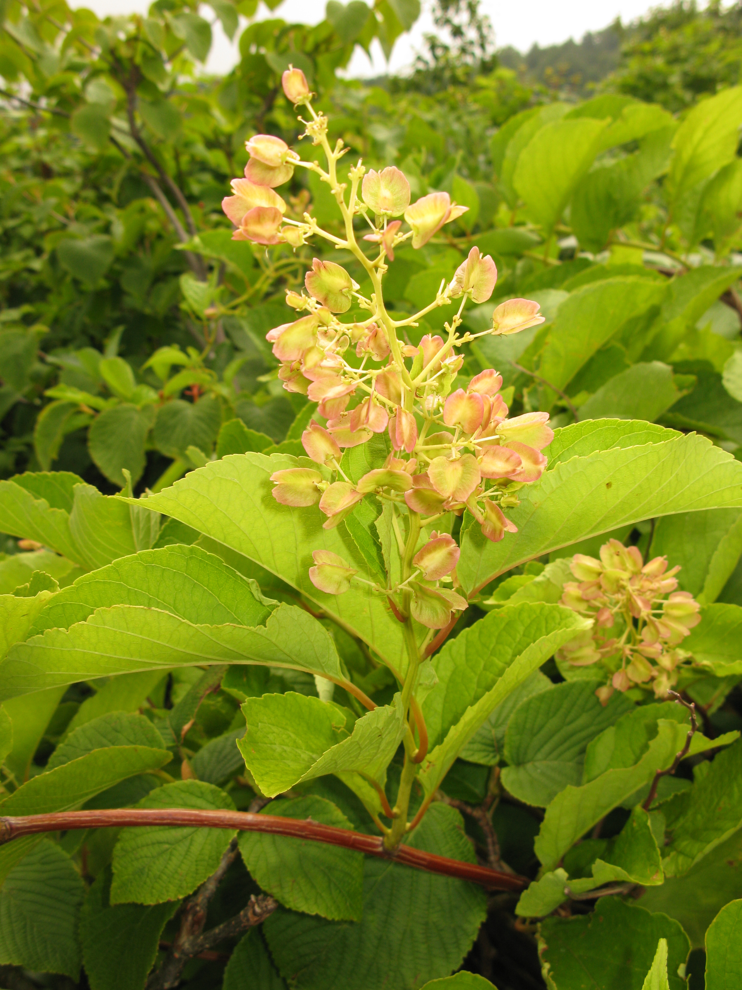 Tripterygium regelii,Mt.Azuma-yama,Fukushima pref.,Japan